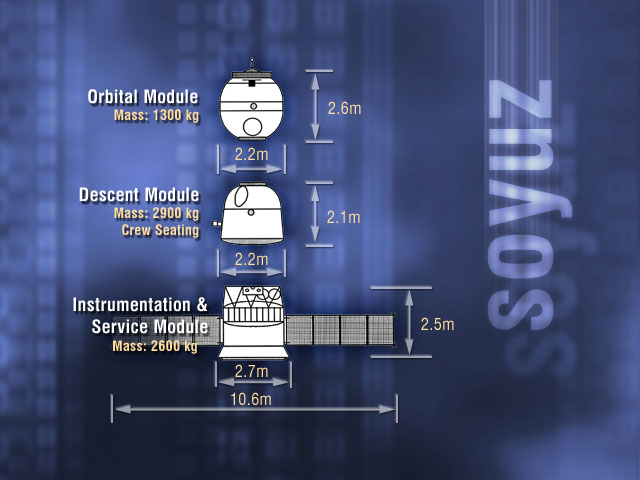 This diagram shows the three elements of the Soyuz spacecraft.